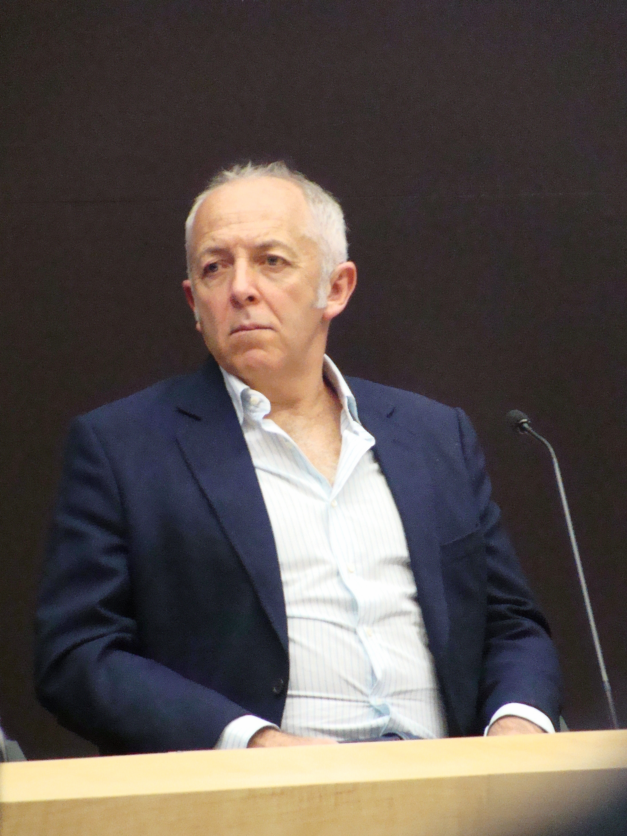 Jeremy Bowen at a meeting with Jon Snow organised by the Olive Tree Programme